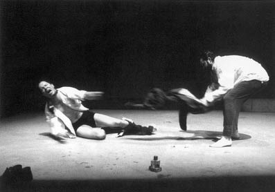 Platonov (Soulpepper Theatre Company, 1999, Toronto) Photo by Guntar Kravis